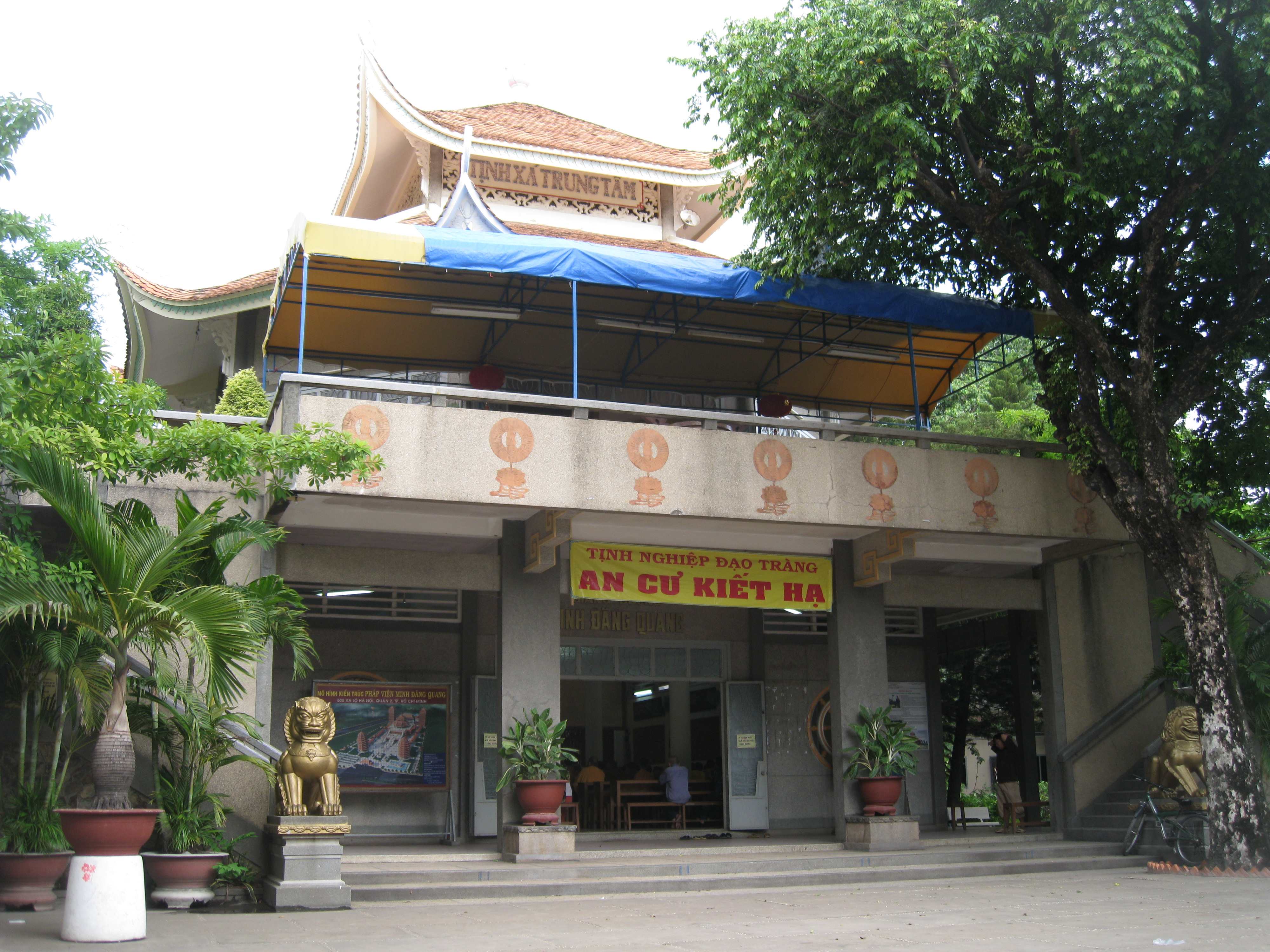 Main hall of Tinh Xa Trung Tam.